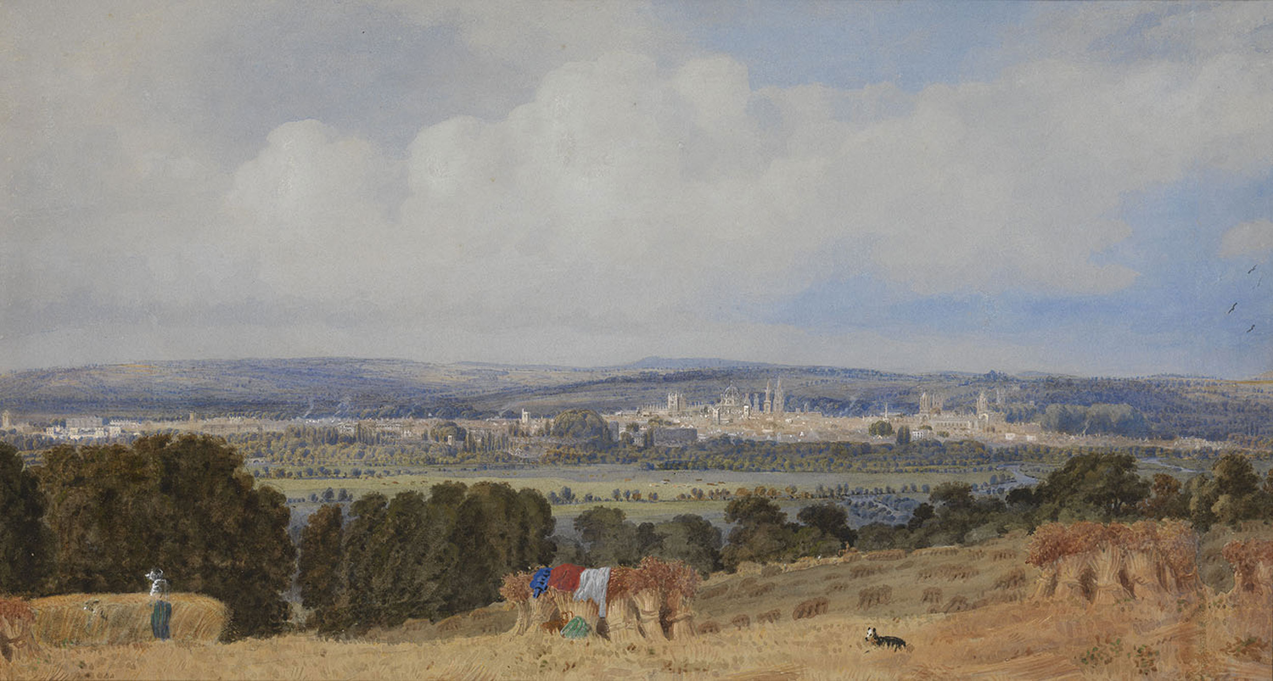 Oxford from Hinksey Hill, pencil & watercolour.